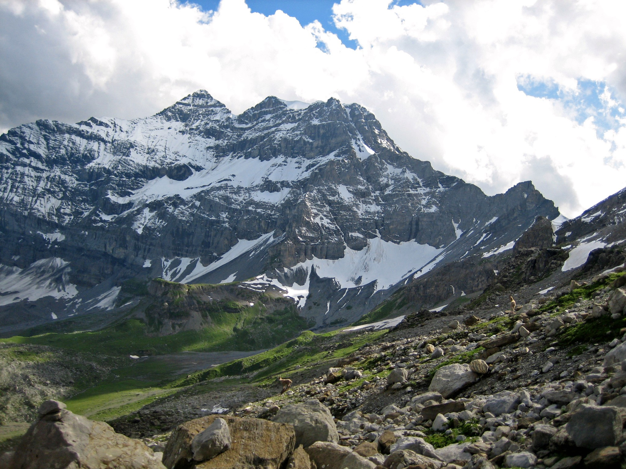 Tour Sallière, Suisse